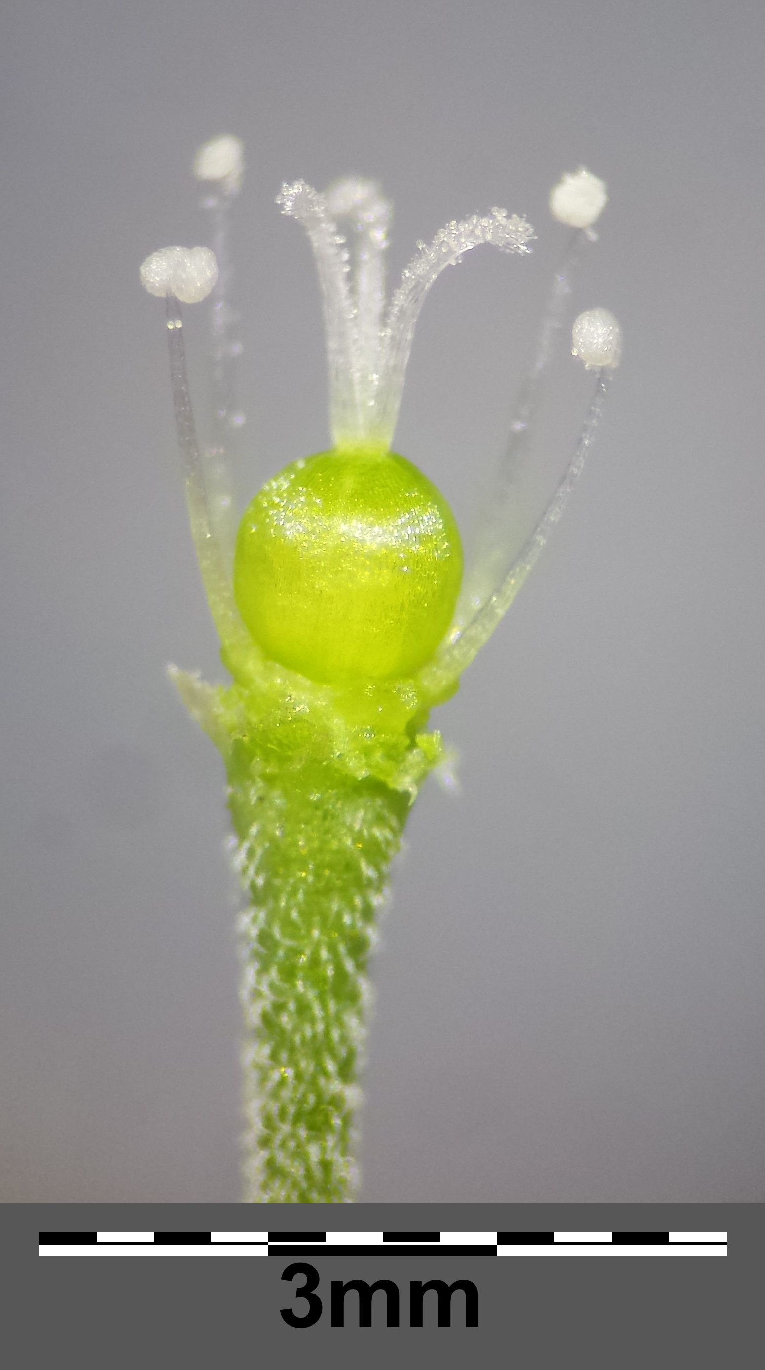 Ovary with styli and stamina Taxonym: Moehringia trinervia ss Fischer et al. EfÖLS 2008 ISBN 978-3-85474-187-9 Location: near Karnabrunner, district Korneuburg, Lower Austria - ca. 300 m a.s.l. Habitat: path within a wood